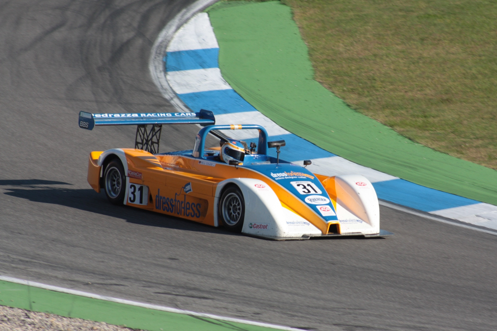 Mirco Schultis driving a PRC CN07 at 'AvD 100 Meilen' in Hockenheim